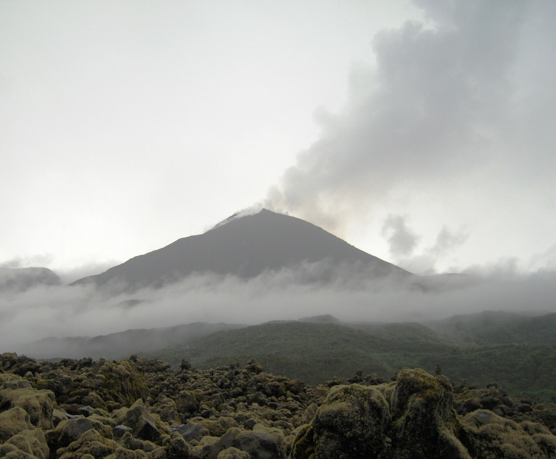 Volcano El Reventador as seen from the foot of the cone at 7000ft. (2012, Valentin Scherrer)